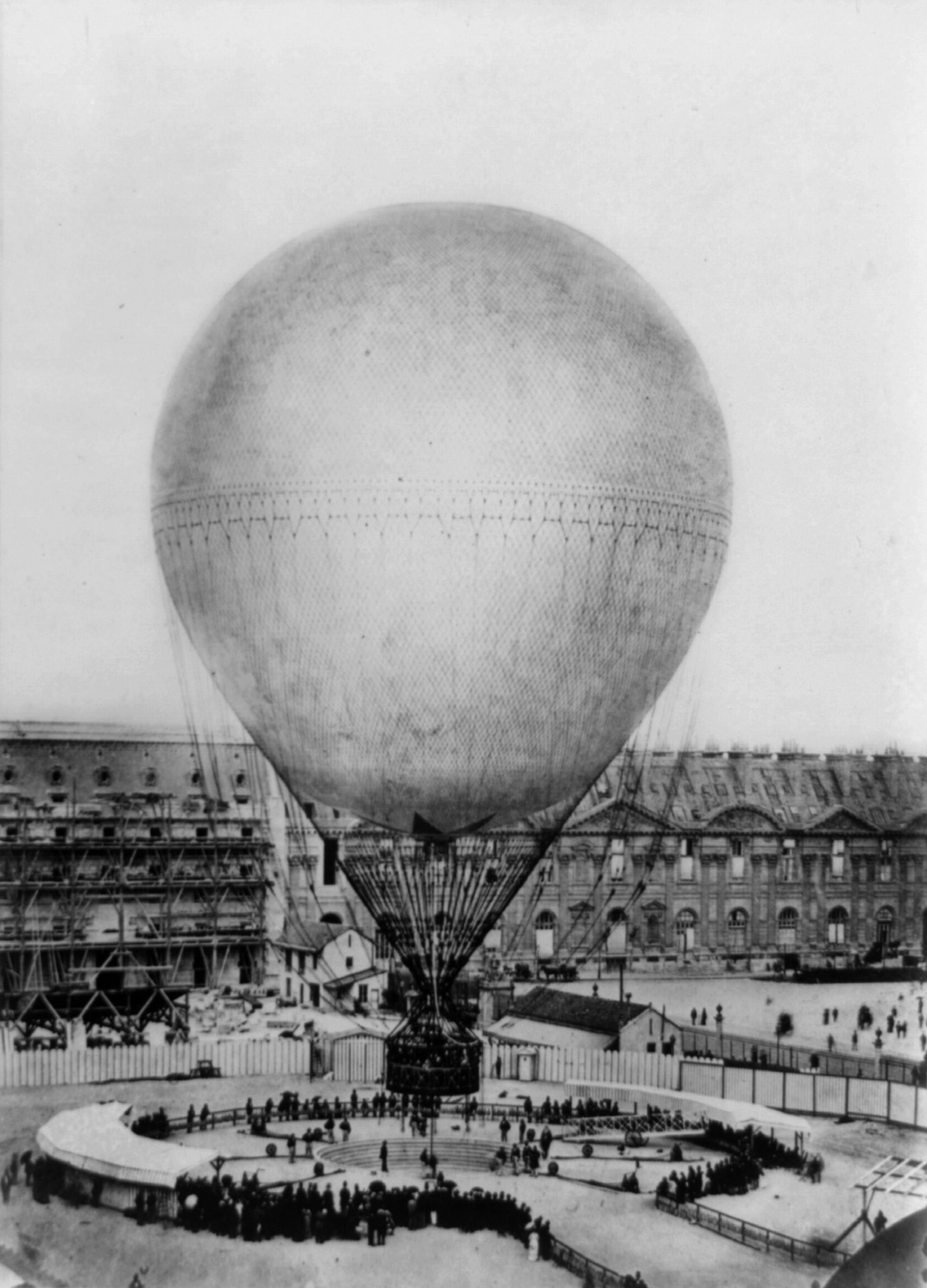 Henri Giffard balloon at the Tuileries. Photo by Prudent René Patrice Dagron, 1878.